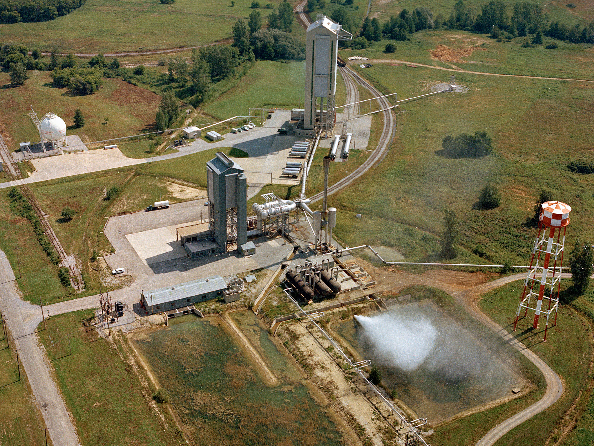 Operation of the High Energy Rocket Engine Research Facility (B-1), left, and Nuclear Rocket Dynamics and Control Facility (B-3) at the National Aeronautics and Space Administration’s (NASA) Plum Brook Station in Sandusky, Ohio. The test stands were constructed in the early 1960s to test full-scale liquid hydrogen fuel systems in simulated altitude conditions. Over the next decade each stand was used for two major series of liquid hydrogen rocket tests: the Nuclear Engine for Rocket Vehicle Application (NERVA) and the Centaur second-stage rocket program. The different components of these rocket engines could be studied under flight conditions and adjusted without having to fire the engine. Once the preliminary studies were complete, the entire engine could be fired in larger facilities. The test stands were vertical towers with cryogenic fuel and steam ejector systems. B-1 was 135 feet tall, and B-3 was 210 feet tall. Each test stand had several levels, a test section, and ground floor shop areas. The test stands relied on an array of support buildings to conduct their tests, including a control building, steam exhaust system, and fuel storage and pumping facilities. A large steam-powered altitude exhaust system reduced the pressure at the exhaust nozzle exit of each test stand. This allowed B-1 and B-3 to test turbopump performance in conditions that matched the altitudes of space.